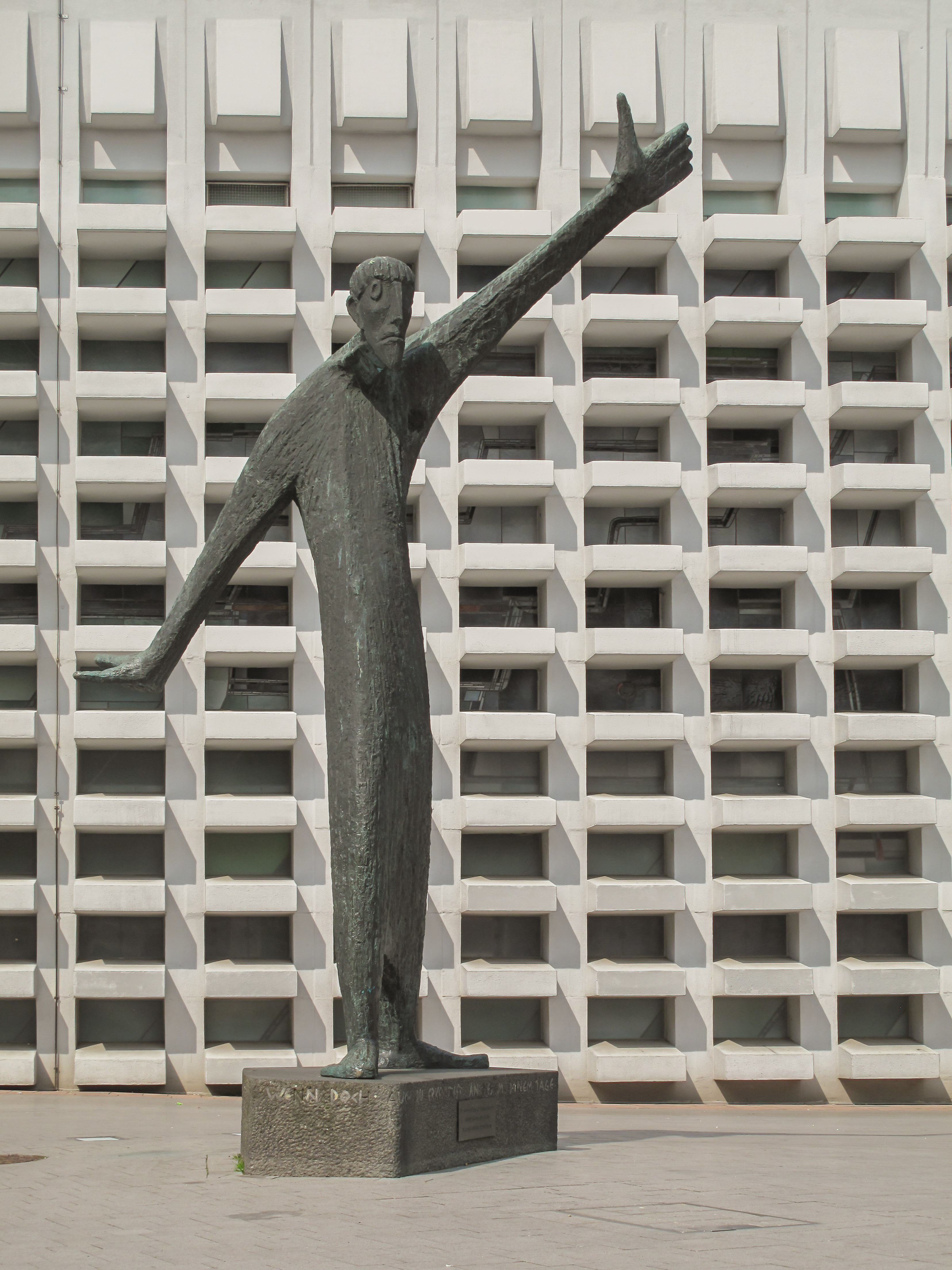 Ahaus, statue in front of the church